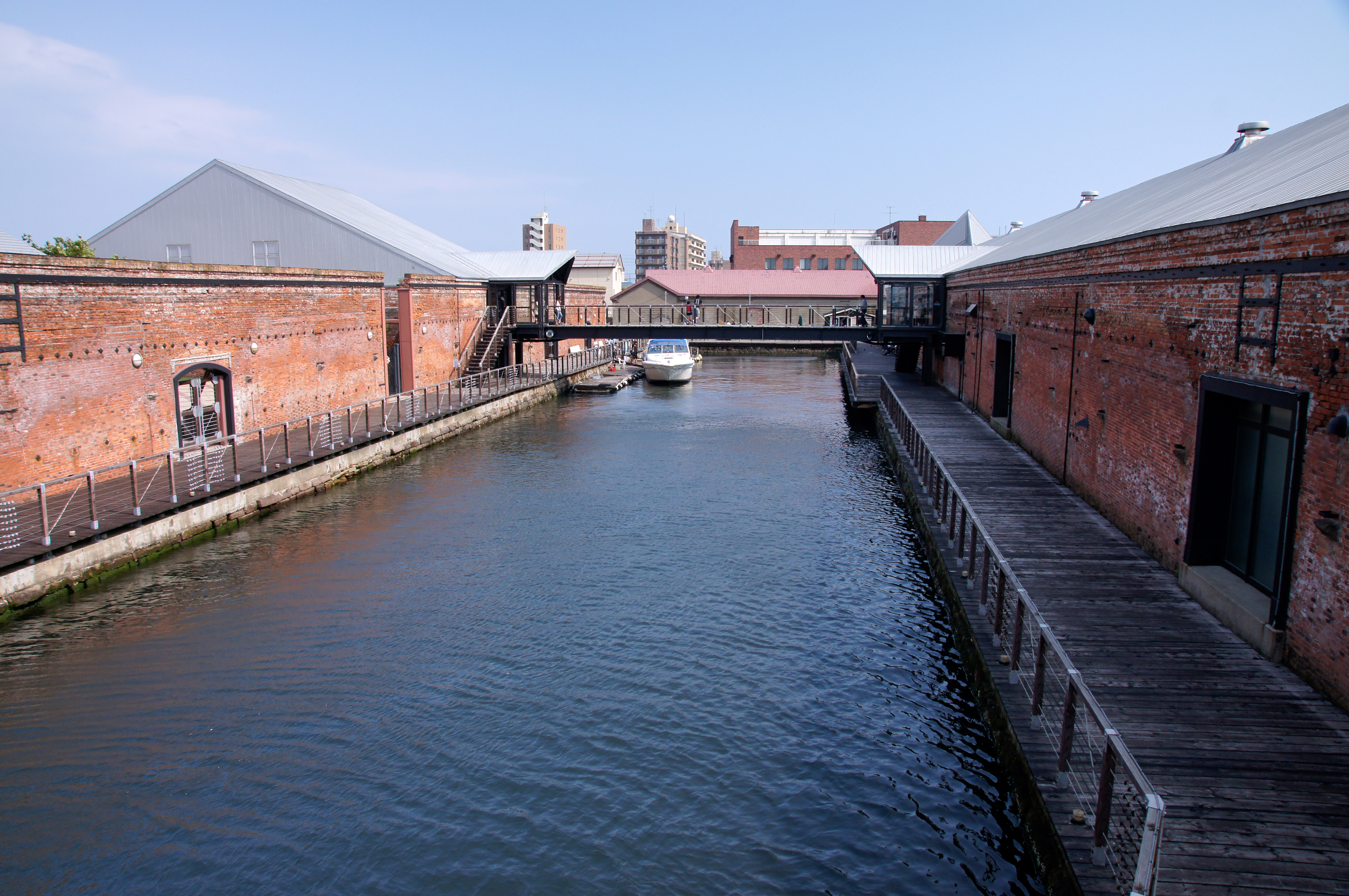 Kanemori Red Brick Warehouse, Suehirocho, Hakodate, Hokkaido prefecture, Japan